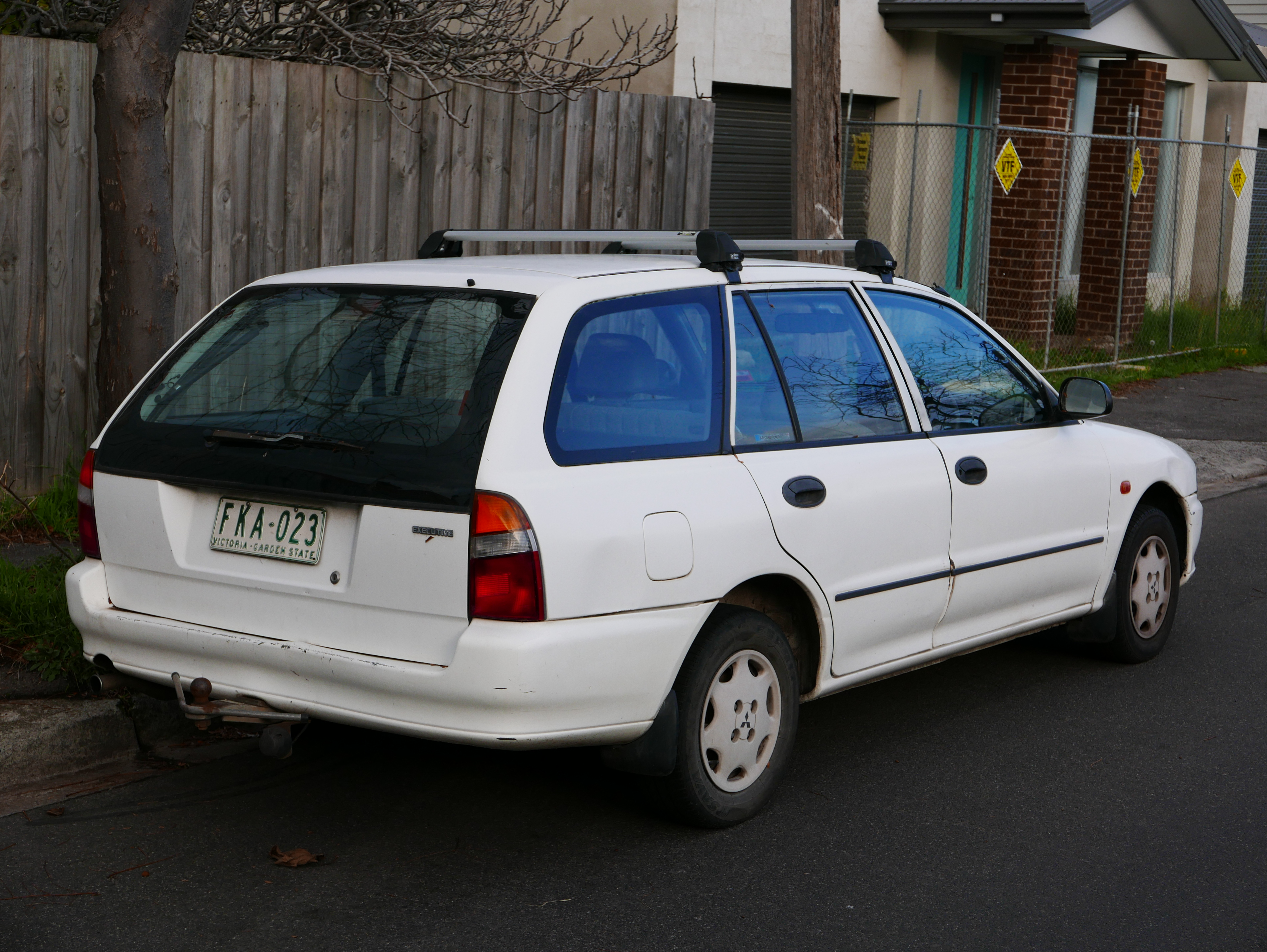 1993 Mitsubishi Lancer (CC) Executive station wagon. Photographed in Northcote, Victoria, Australia. Vehicle registration enquiry results Jurisdiction Victoria Registration FKA023 Chassis code JMFCC5M45PJ018145 Engine code 4G93CB7503 Compliance date 1993-12 Year of manufacture 1994 (not a typo)